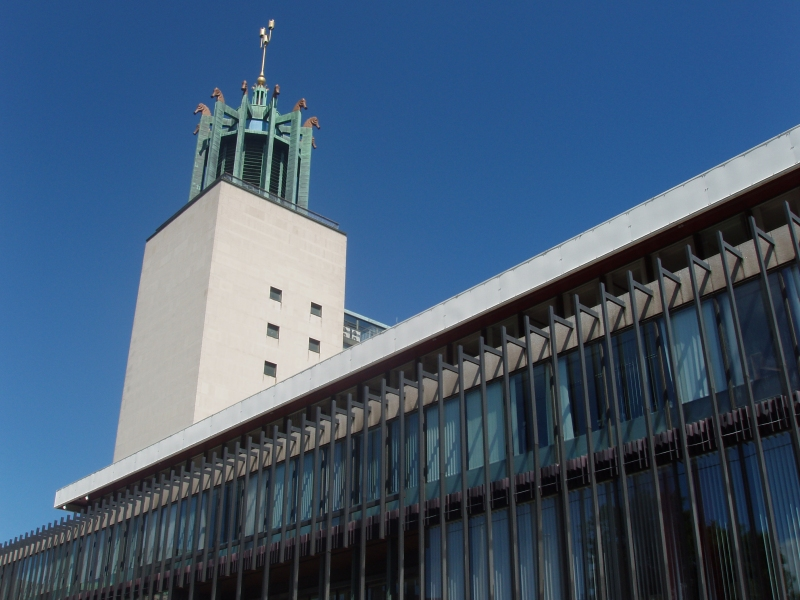 Civic Centre, Newcastle upon Tyne. Taken by myself, 2005-06-25, CC-By license.